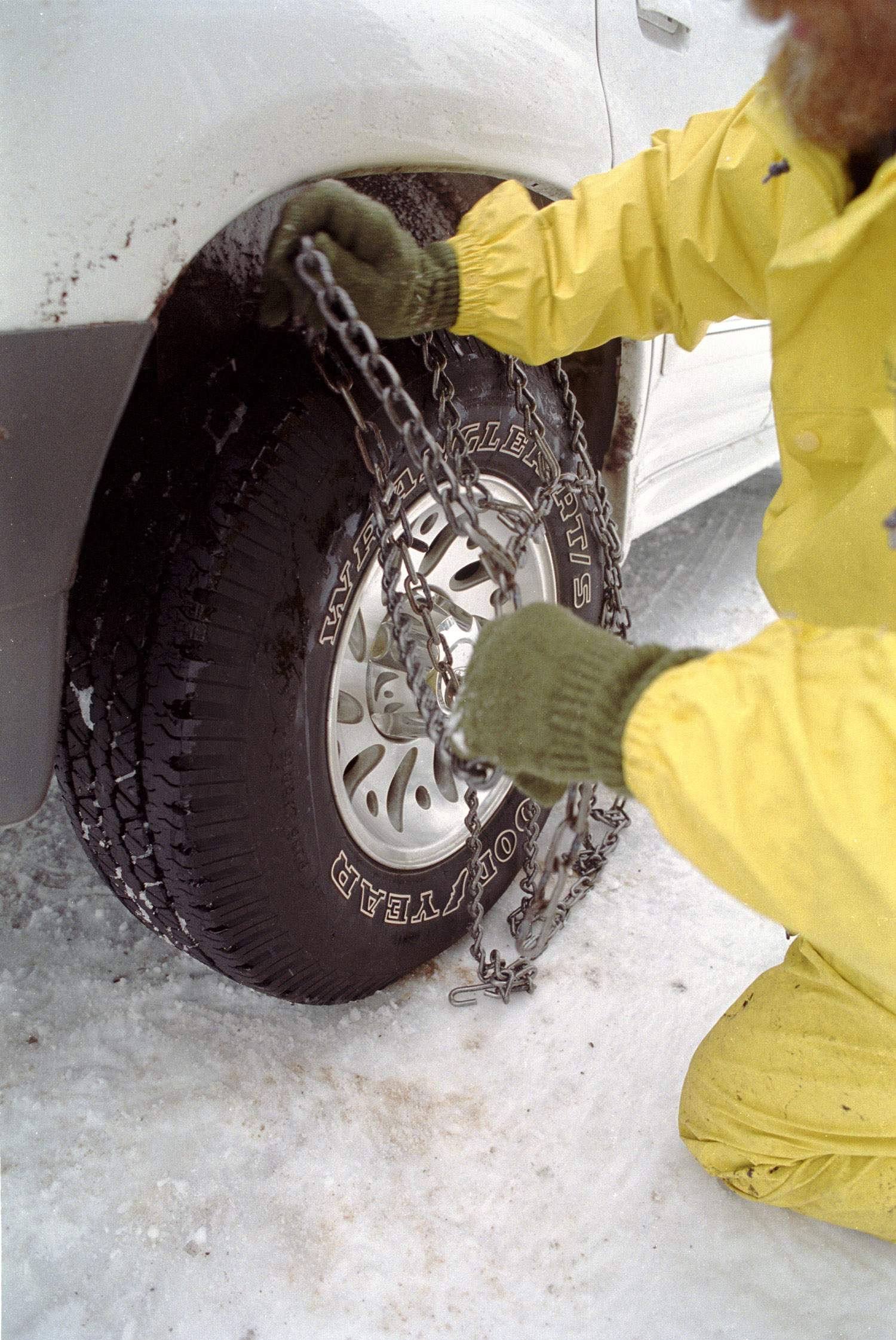 Practice installing your chains at home when the weather is fair. Then when road conditions require chains, you’ll already know how to use them.